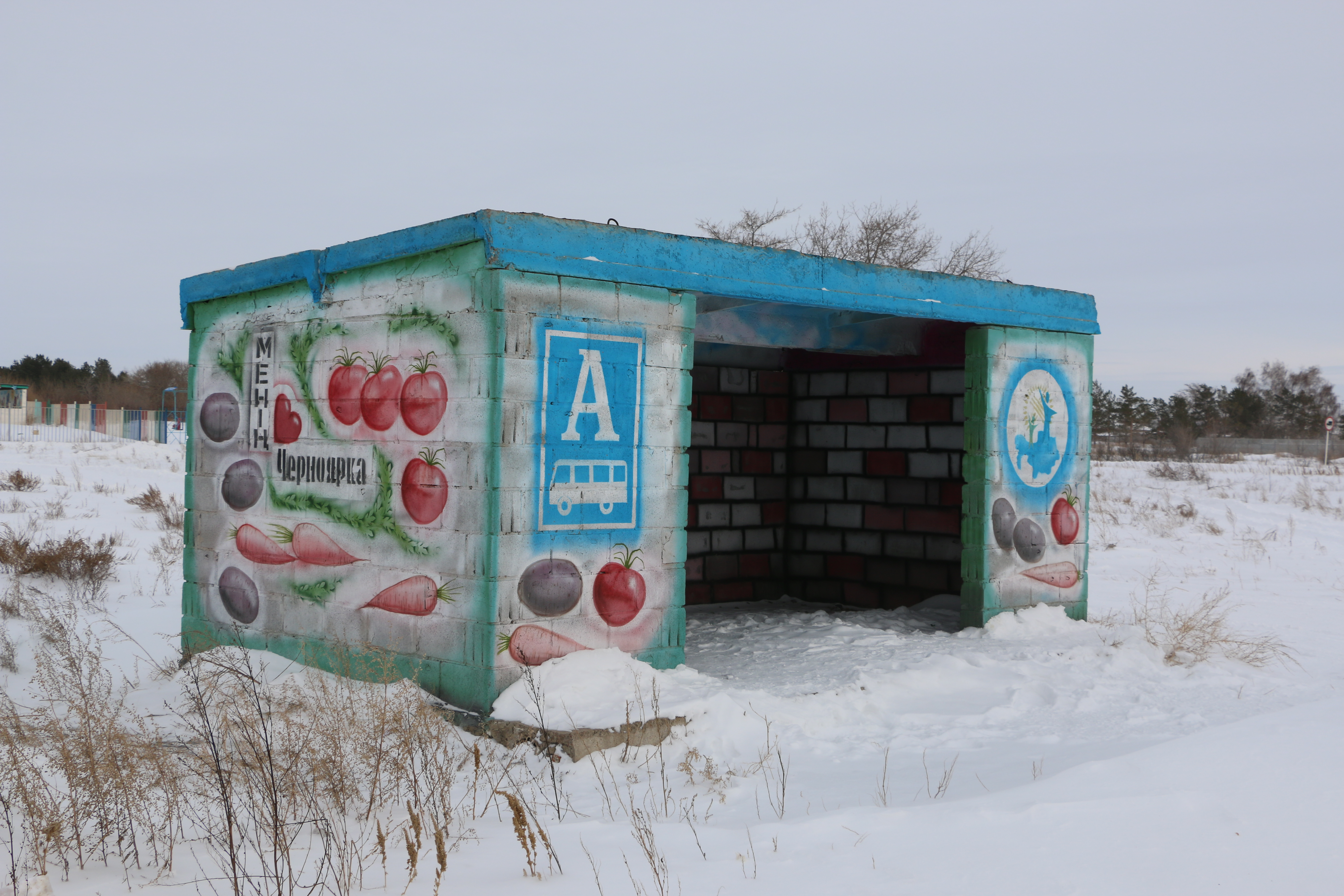 Busstop in Novochernoyarka, Pavlodar Rayon